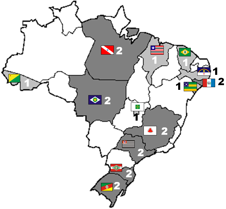 Map showing the states who have teams in Campeonato Brasileiro Série C 2009